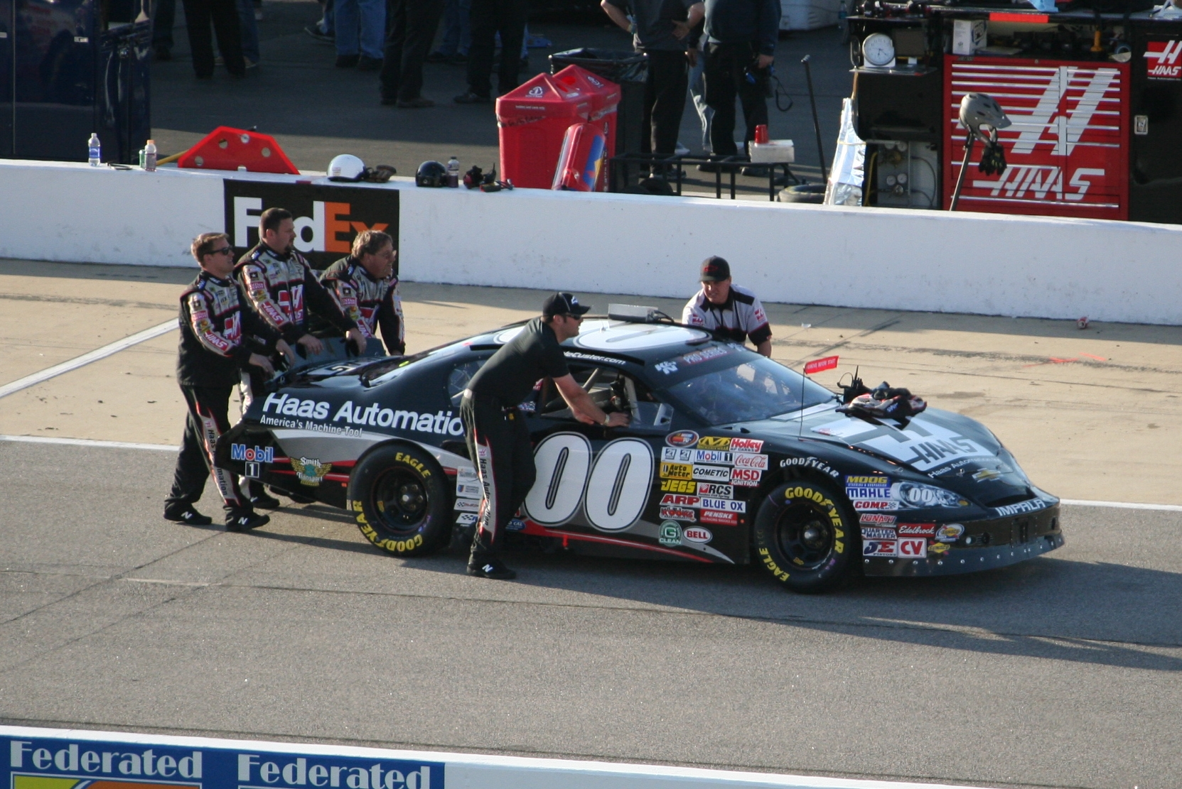 Cole Custer's No. 00 Chevrolet is pushed out onto pit road at Richmond International Raceway before the NASCAR K&N Pro Series East Blue Ox 100, April 25 2013.